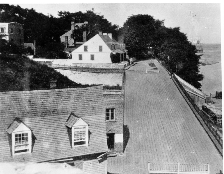 Terrasse Turcotte c.1875